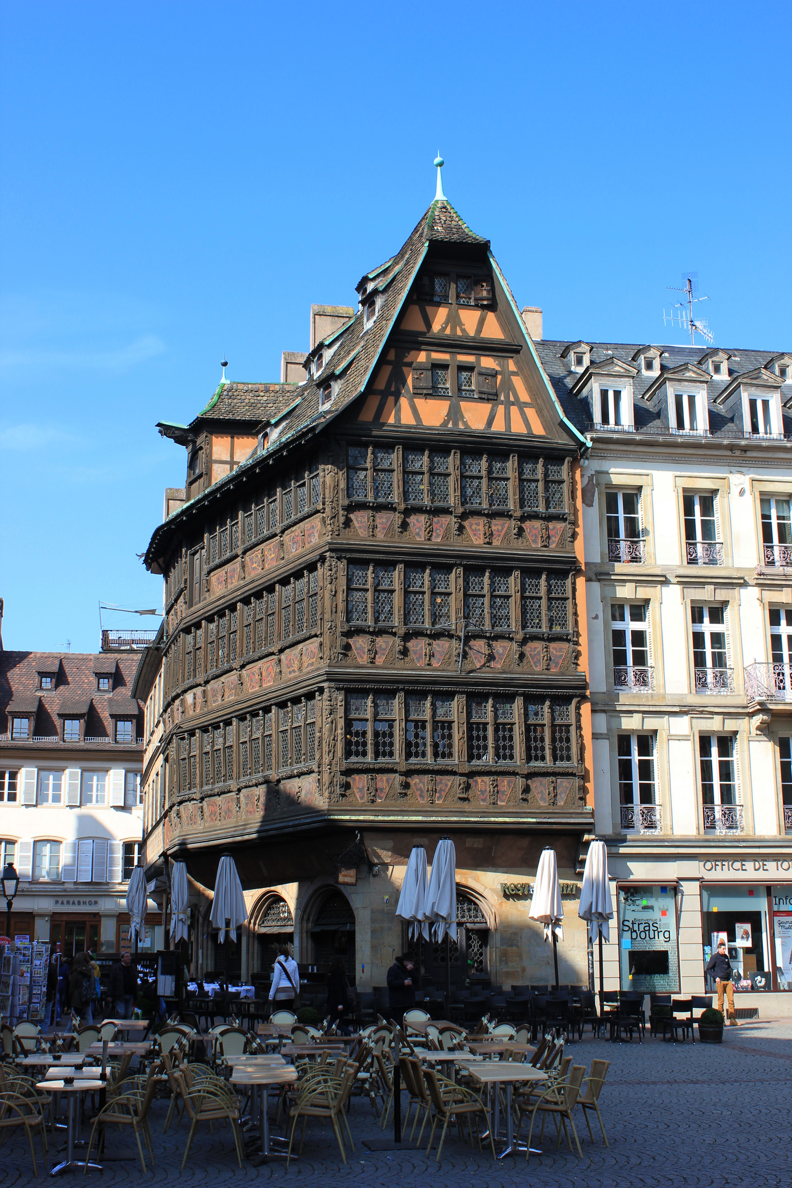 A photo taken of Kammerzellhüs in Strasbourg, Alsace, France.